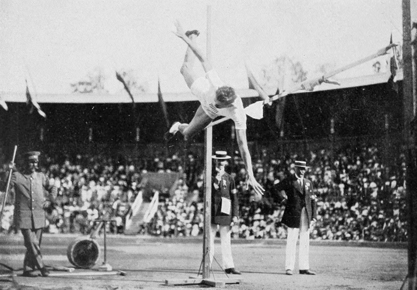 George Horine during the high jump competition at the 1912 Summer Olympics.